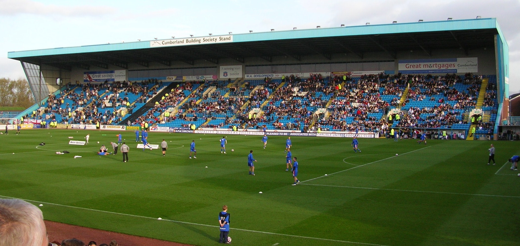 The Cumberland Building Stand at Brunton Park, home of Carlisle United F.C.